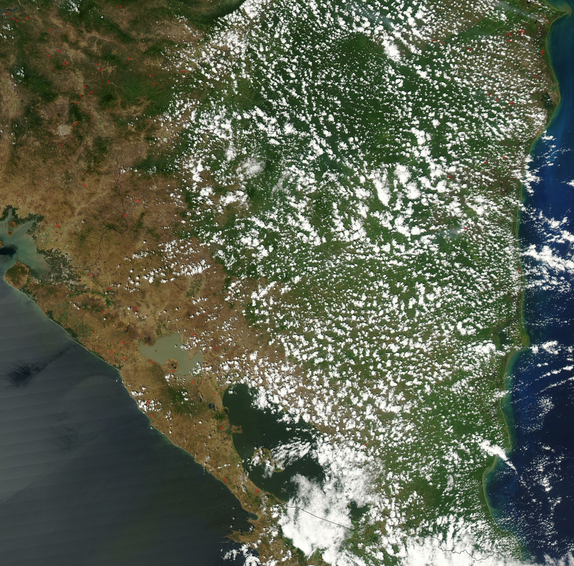 Satellite image of Nicaragua in March 2003.